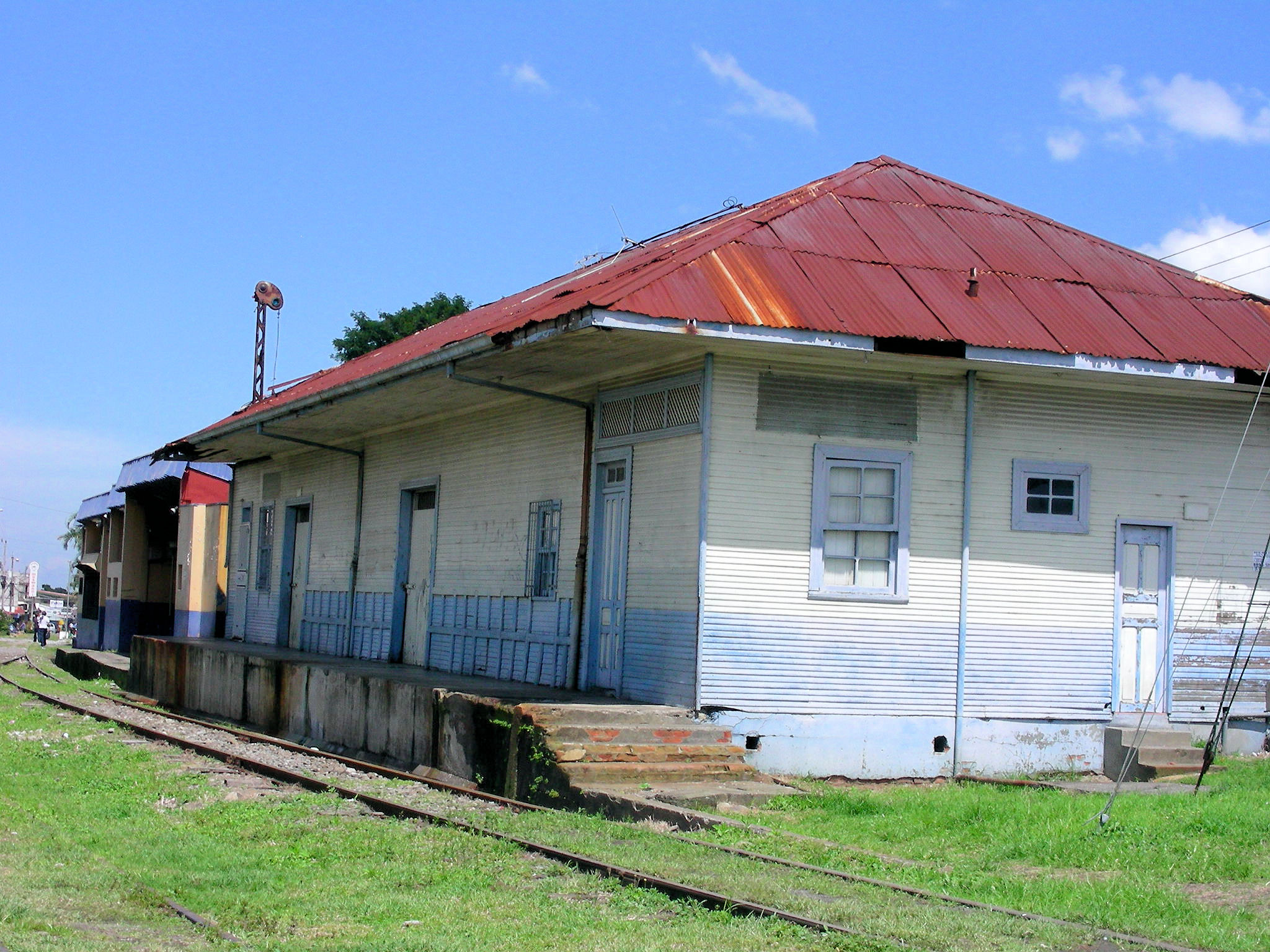 Former train station, San Antonio, Belén, Heredia